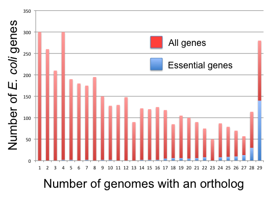 The more conserved a gene is the more it tends to be essential. However, this correlation holds only for genes founds in more than 15 genomes. Based on Fang et al. (2005) Mol. Biol. Evol. 22(11):2147–2156.